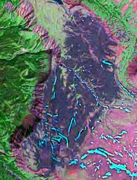 Satellite image of the Mess Lake Lava Field.